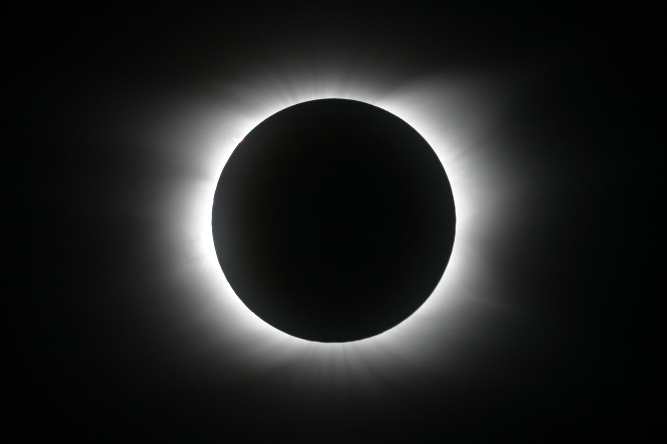 corona caught during a total eclipse of the Sun